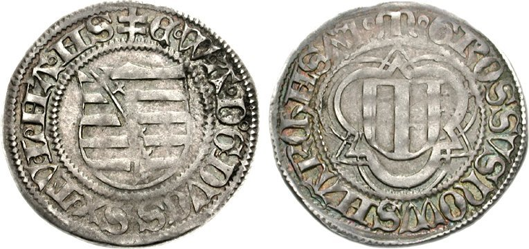 GERMANY, Sachsen-Kurfürstentum. Ernst, Albrecht, Wilhelm III, Margaretha. 1475-1482. AR Spitzgroschen (1.60 g, 6h). Colditz mint. Dated 1475. (patriarchal cross) Є VV Λ D G DVCS SX TV L H Λ HS (annulet stops), coat-of-arms of Saxony / (annulet) m (annulet) GROSSVS nOVVS HΛRCh HS Λ7, coat-of-arms within trefoil. Levinson I-140; Krug 1593-1600; Frey -. Good VF, attractively toned.